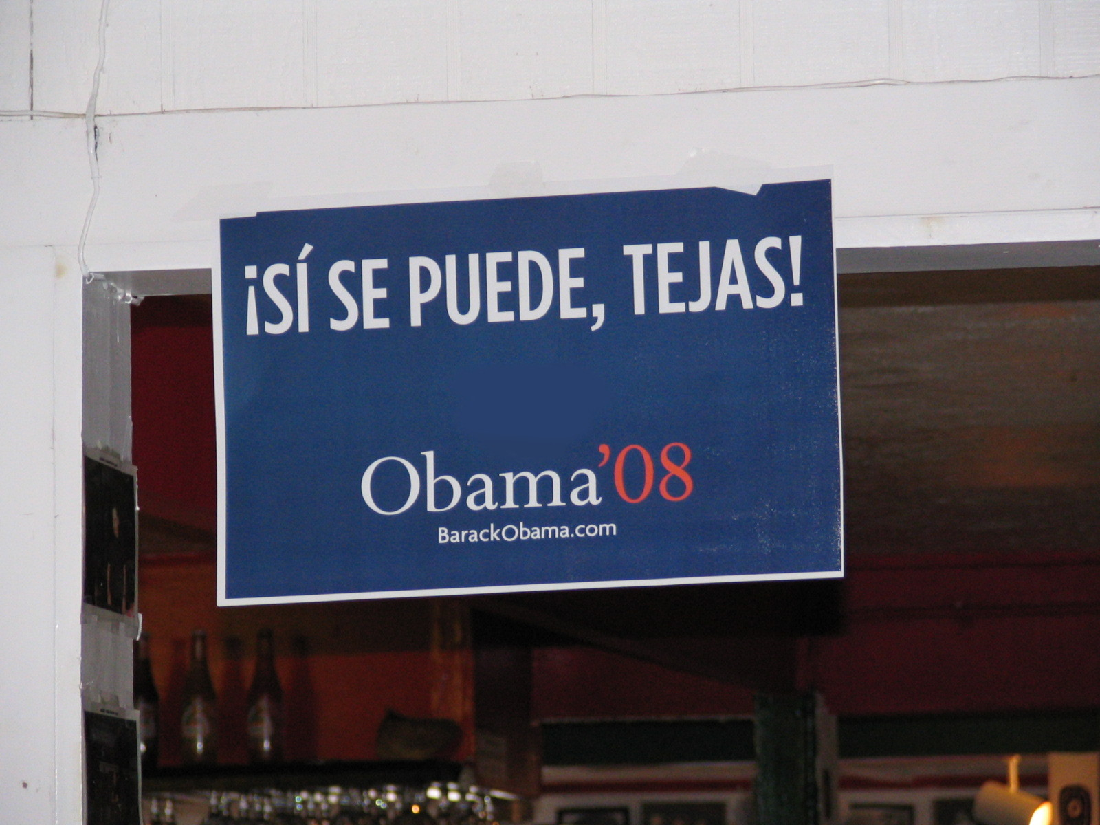 Spanish rally card for the Barack Obama presidential campaign in Austin, Texas, reading "Sí se puede, Tejas!". Obama sunrise logo removed due to copyright concerns.